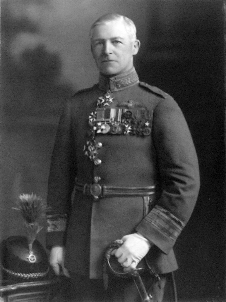 Air Vice-Marshal Charles Laverack Lambe. This image is a digital reproduction of an original photograph which was taken between 1 Jan 1925 and 31 Mar 1928. The uploader digitized the photograph.